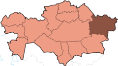 Map of East Kazakhstan Province